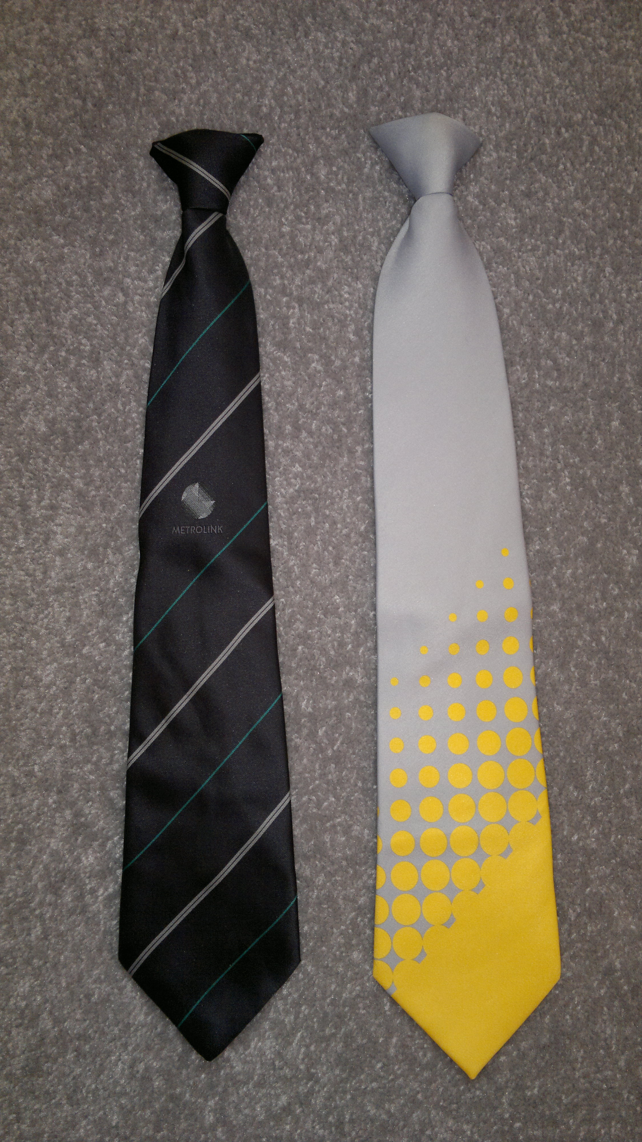 Two neckties belonging to former unforms of Metrolink officers. Both are "clip-on" style neckties. The one on the left is from the older and original black and turquoize (pre-2009 rebrand) uniform, and features the old logo of the system. The one on the right is from a post-2009 uniform created by Abacus Careerwear and based on a system-wide rebranding exercise undertaken by the Hemisphere design agency; this one is my favourite. Both have since been surpassed by a black-with-gold stripes necktie, featuring a small Metrolink emblem at its base.